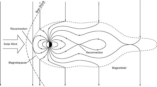 A schematic diagram depicting the magnetosphere in the near-Earth space environment. Note the southward orientation of the interplanetary magnetic field, and the reconnective process with the geomagnetic field that follows as the solar wind carries the interplanetary field past the Earth.